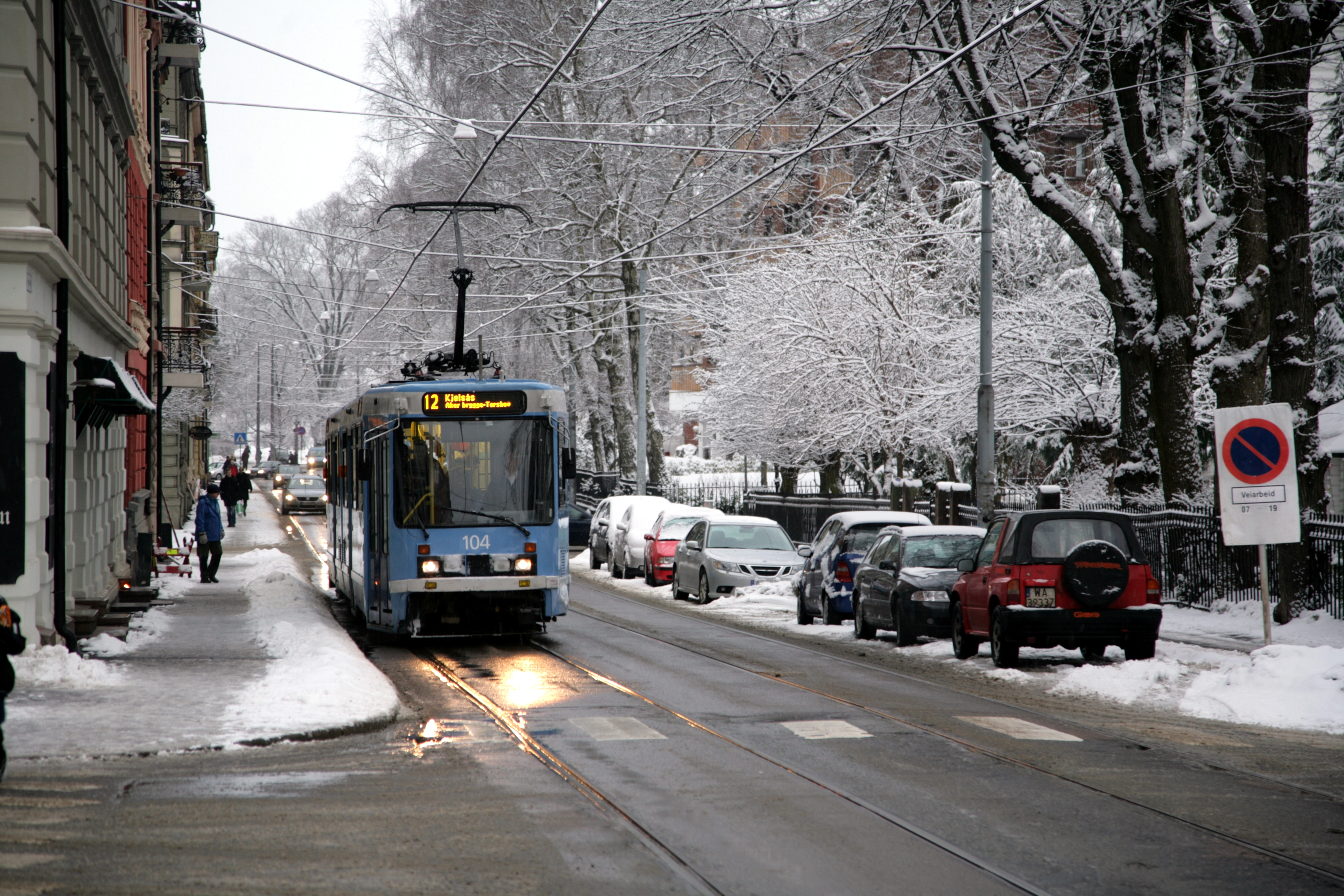 Tram in Frognerveien in Oslo